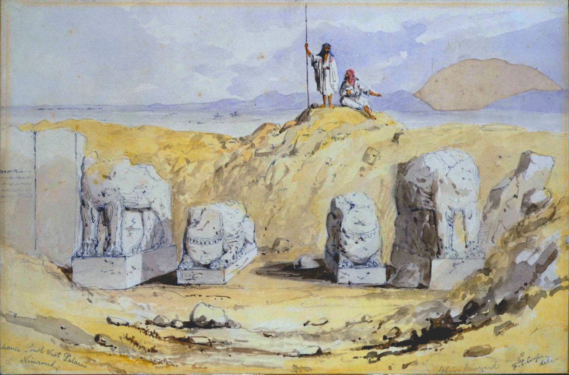 Object: Watercolour Place of origin: Nineveh, Iraq (painted) Materials and Techniques: Watercolour over pencil, on stiff paper